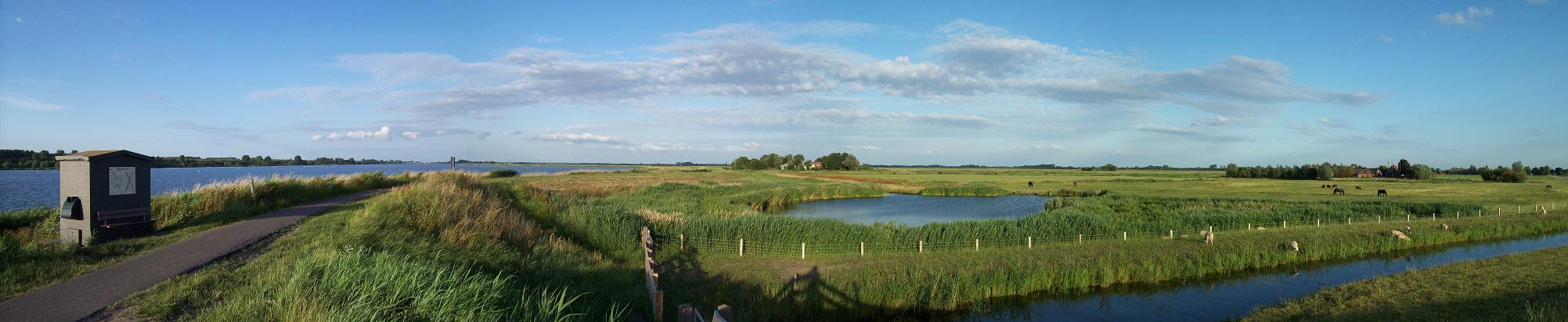 Landscape of 'Arkemheen', the Netherlands